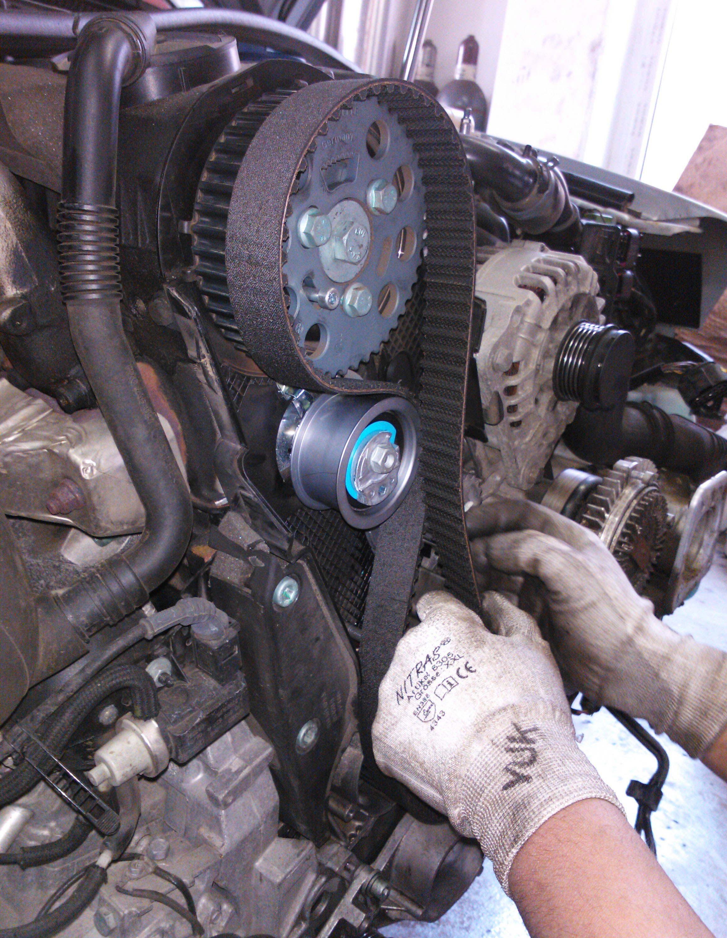 Replacing a timing belt of car.Српски (ћирилица): Мењање јермена (кајша) на ауту.